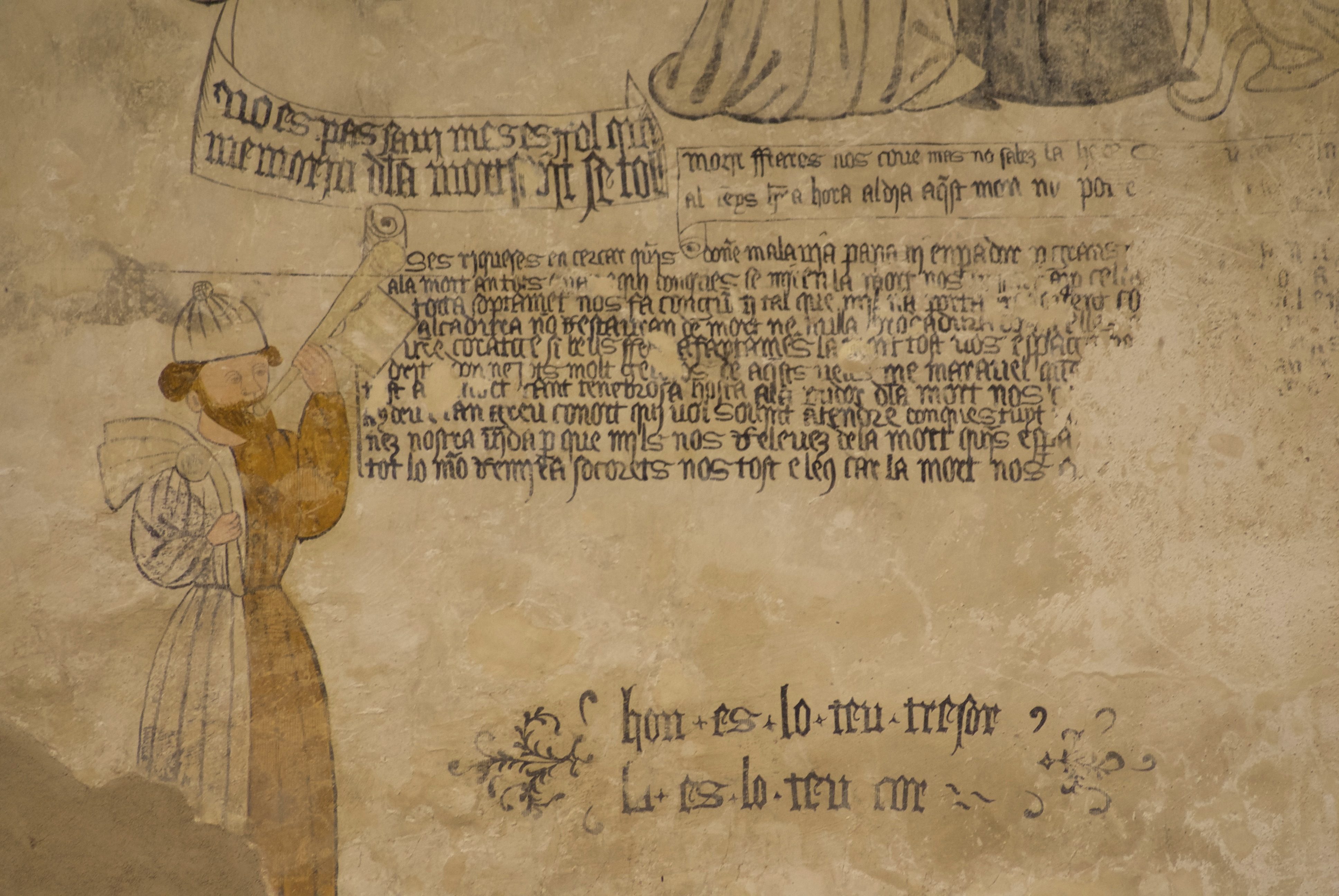 Détail de la fresque de la danse macabre. Morella.